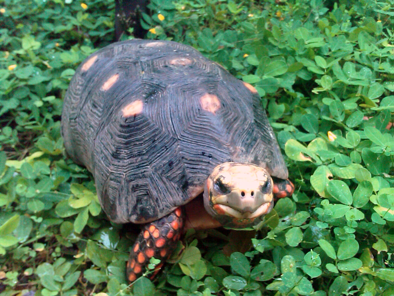 A friendy Geochelone carbonaria